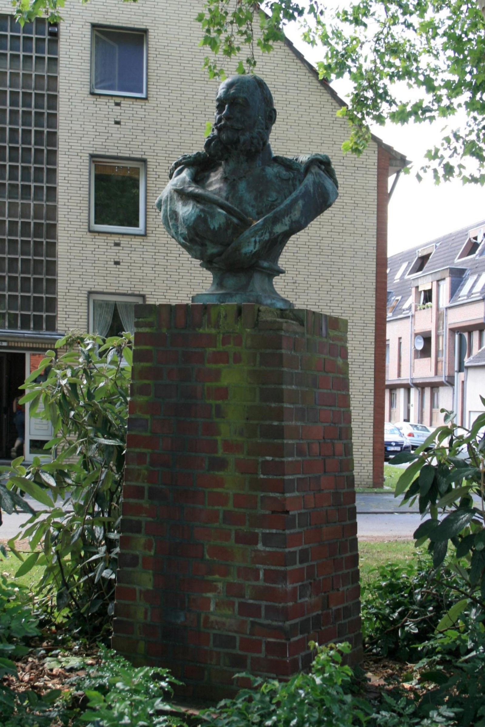 Cultural heritage monument No. M 053 in Mönchengladbach